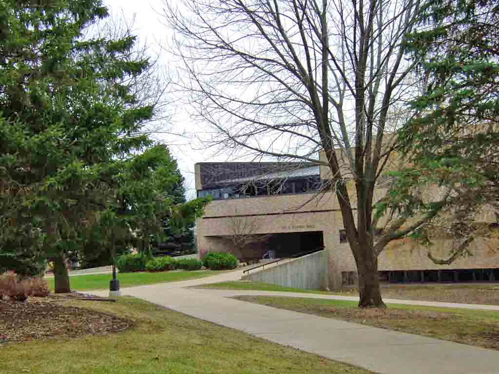 Boebel Hall (math, biology, geography, etc.)